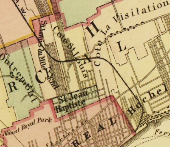 DETAIL of : Atlas of the city and island of Montreal, including the counties of Jacques Cartier and Hochelaga ; from actual surveys, based upon the cadastral plans deposited in the office of the Department of Crown Lands